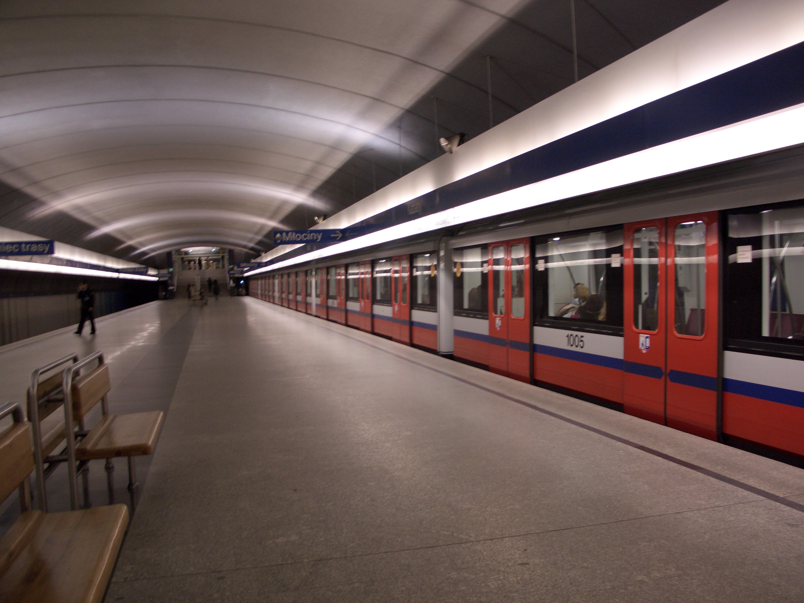 Kabaty metro station